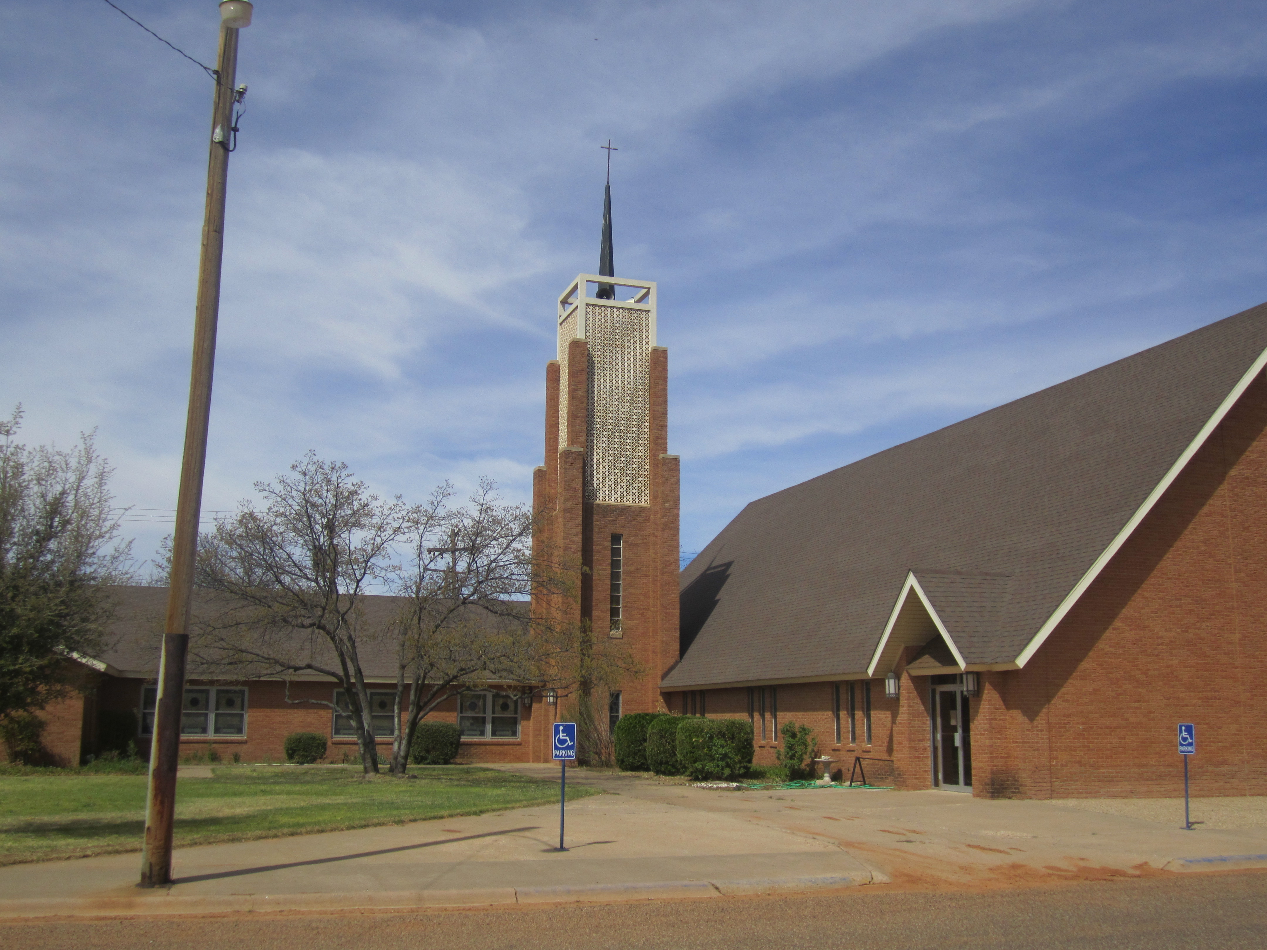 I took photo with Canon camera in Tahoka, TX.